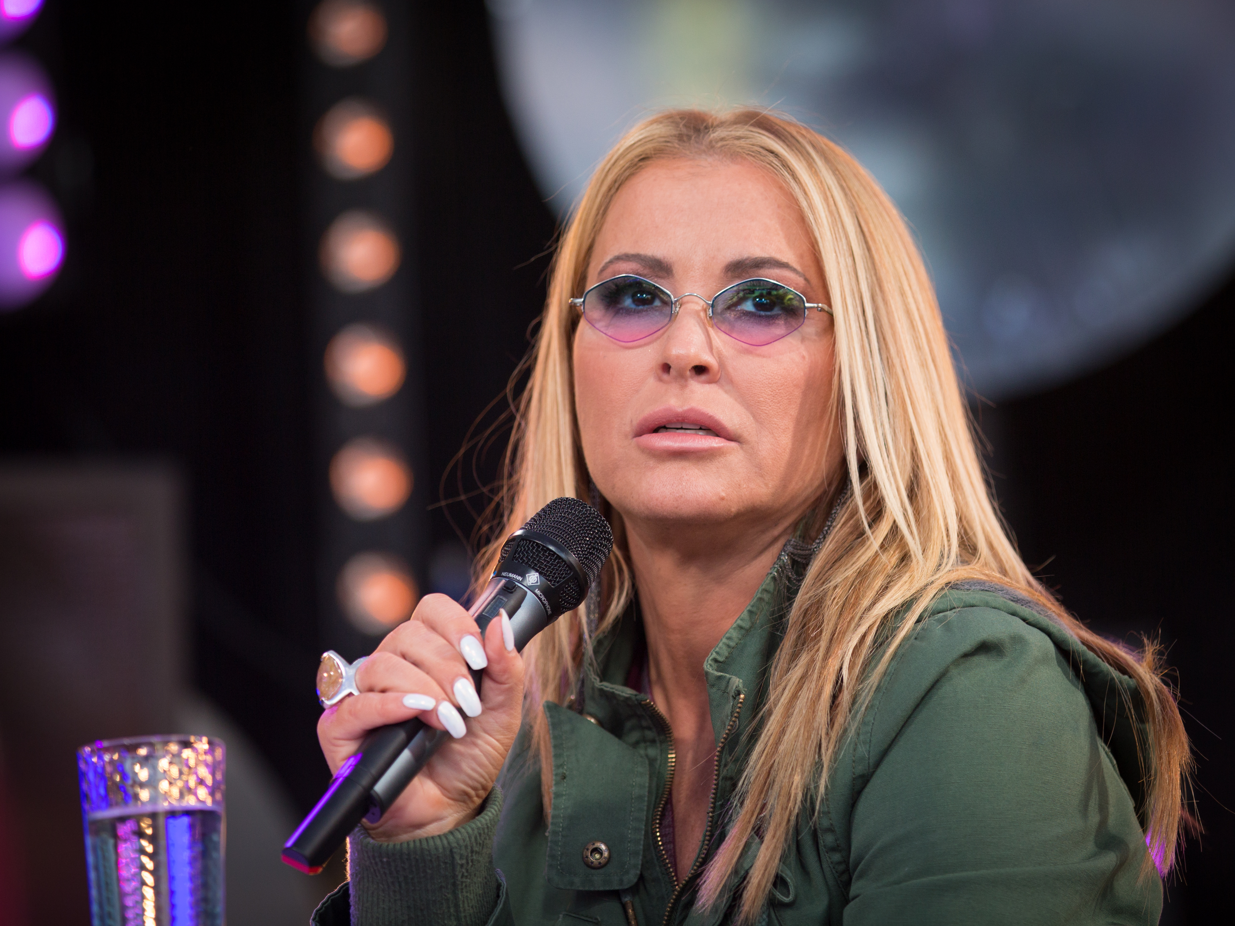 US-American singer-songwriter Anastacia at the SWR3 New Pop Festival 2017